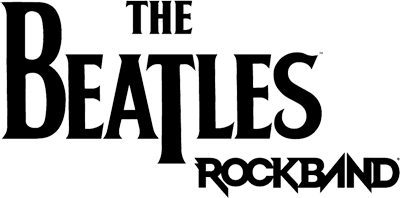 Logo of The Beatles: Rock Band videogame.